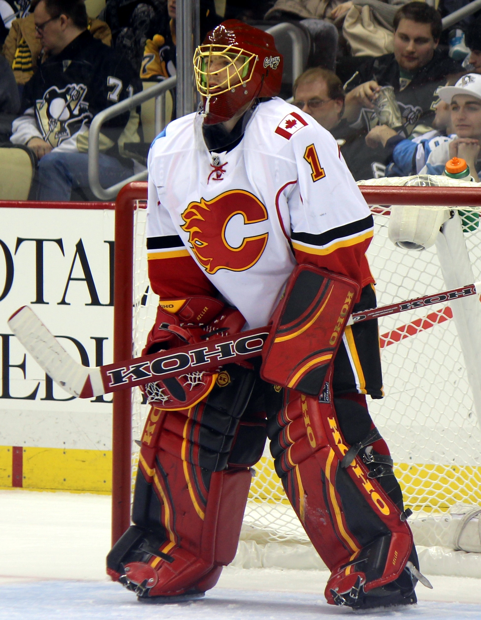 Calgary Flames goaltender Jonas Hiller during a game against the Pittsburgh Penguins, December 12, 2014, at Consol Energy Center in Pittsburgh, PA.